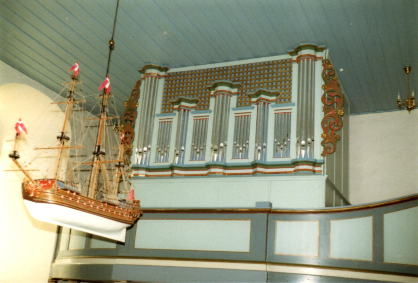 Interior of Hurum Church, showing the organ and a model of 'Dannebrog' - the ship of Iver Huitfeldt, commander of the Danish-Norwegian fleet.